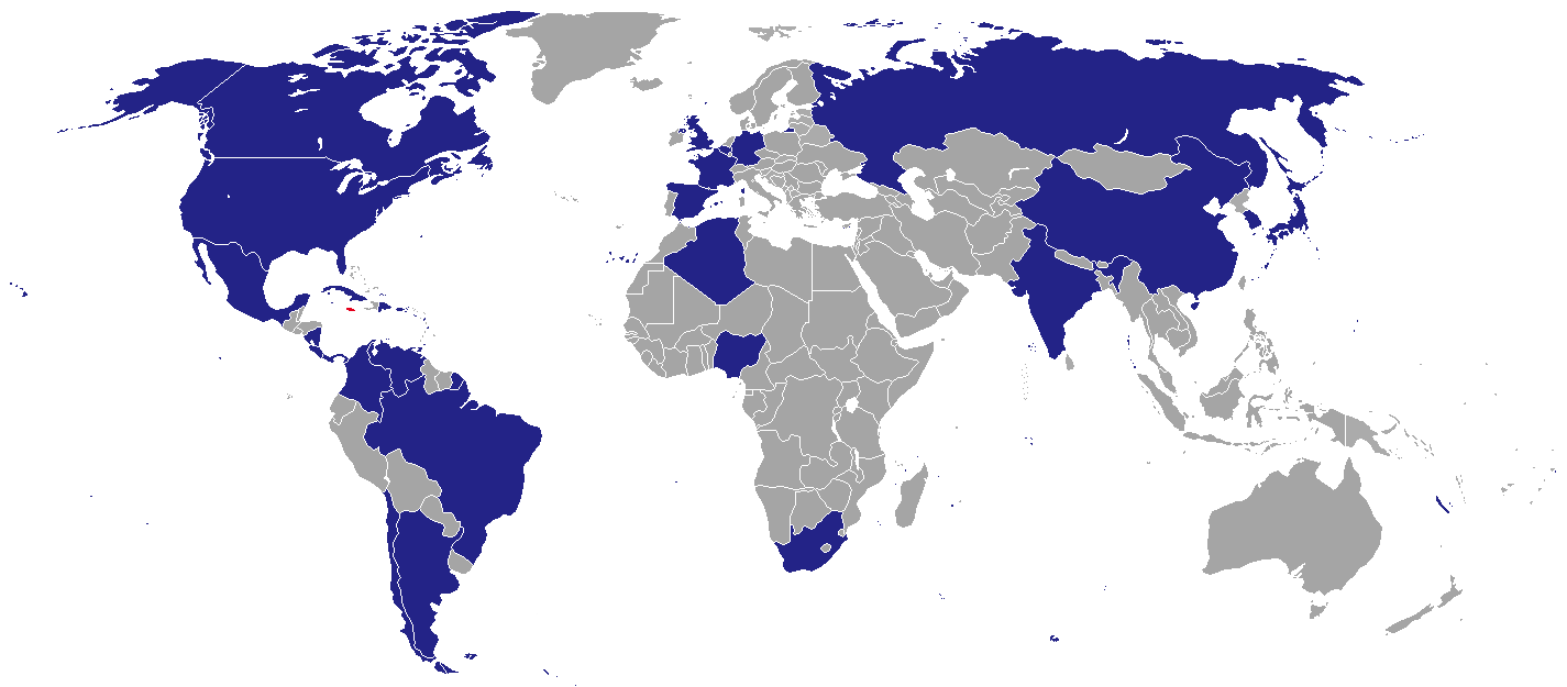 Map of diplomatic missions in Jamaica